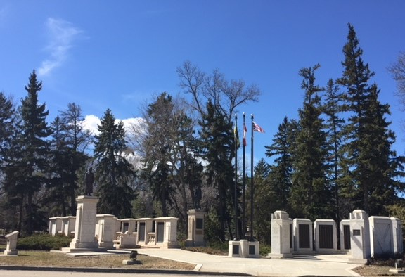 Saskatchewan War Memorial in Wascana Park, Regina, Saskatchewan